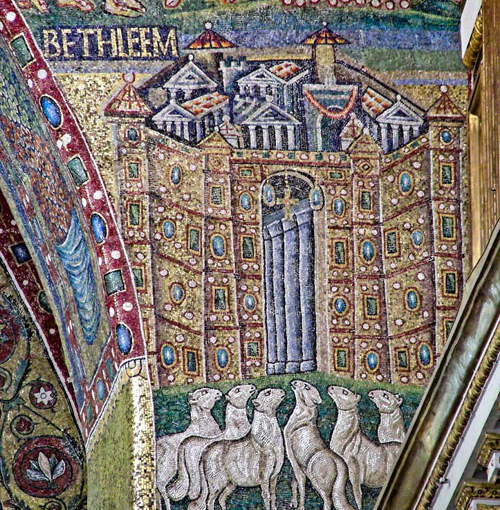 Triomphal Arch Mosaics in the Basilica of Santa Maria Maggiore in Rome, right side, fourth register from up (bottom)